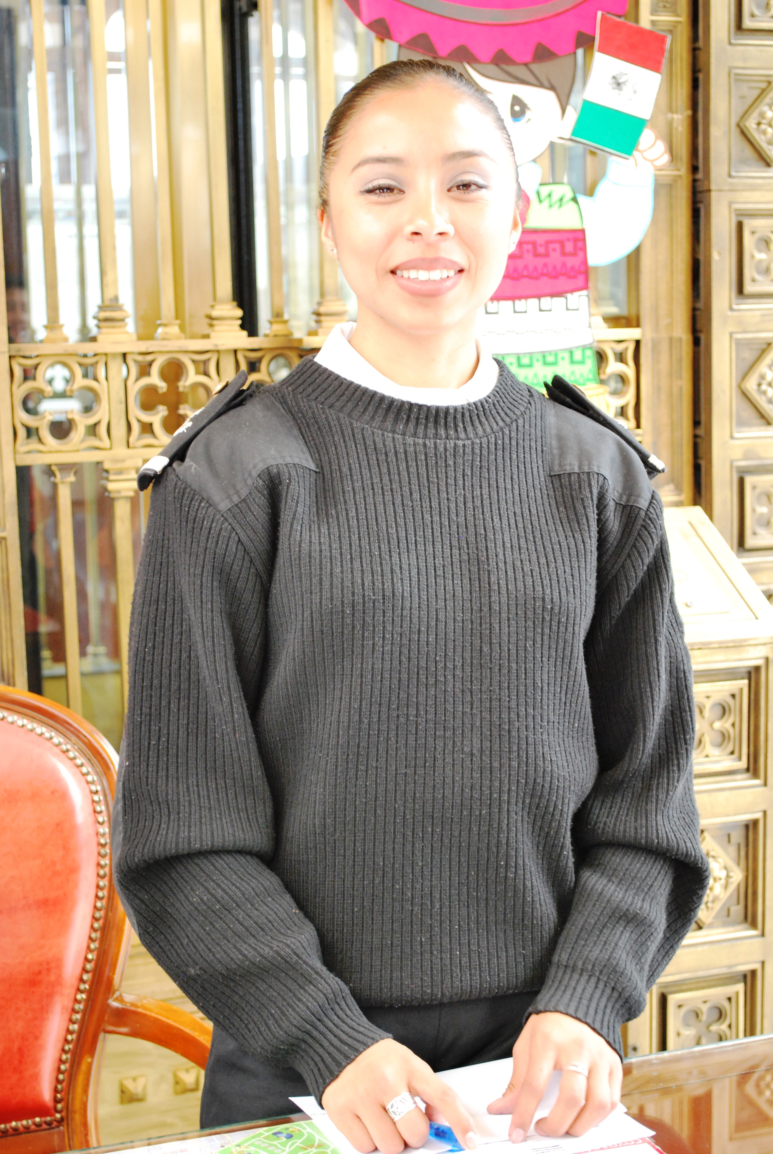 Female sailor at the Naval History Museum in Mexico City